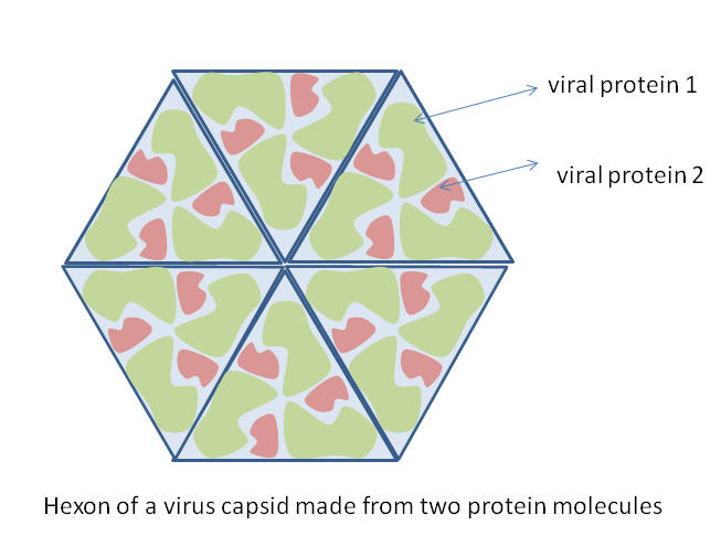 Schematic diagram of the hexon of a virus capsid